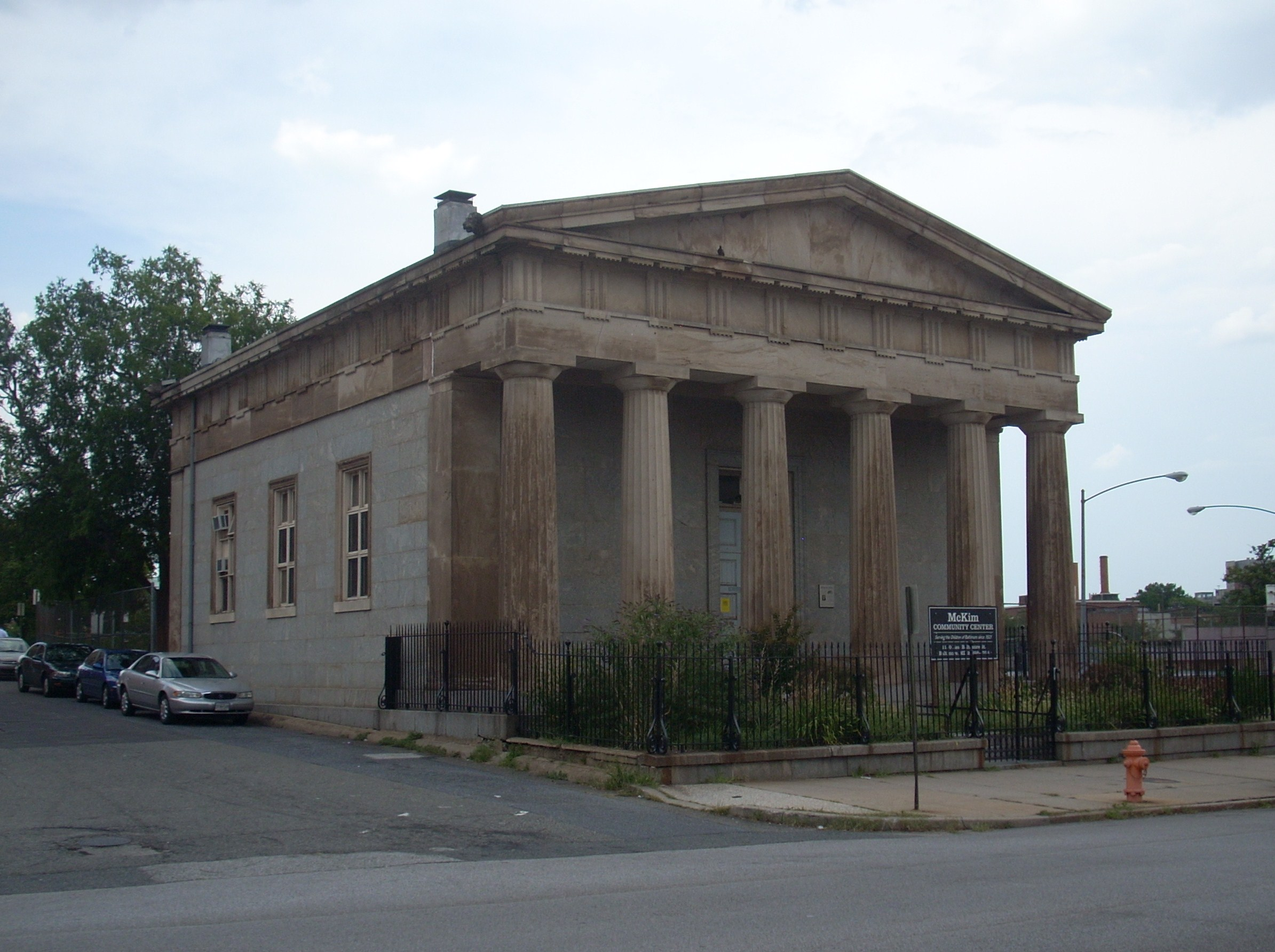 McKim's School, 1120 E. Baltimore St., Baltimore City, Maryland Object location39° 17′ 28″ N, 76° 36′ 04″ W